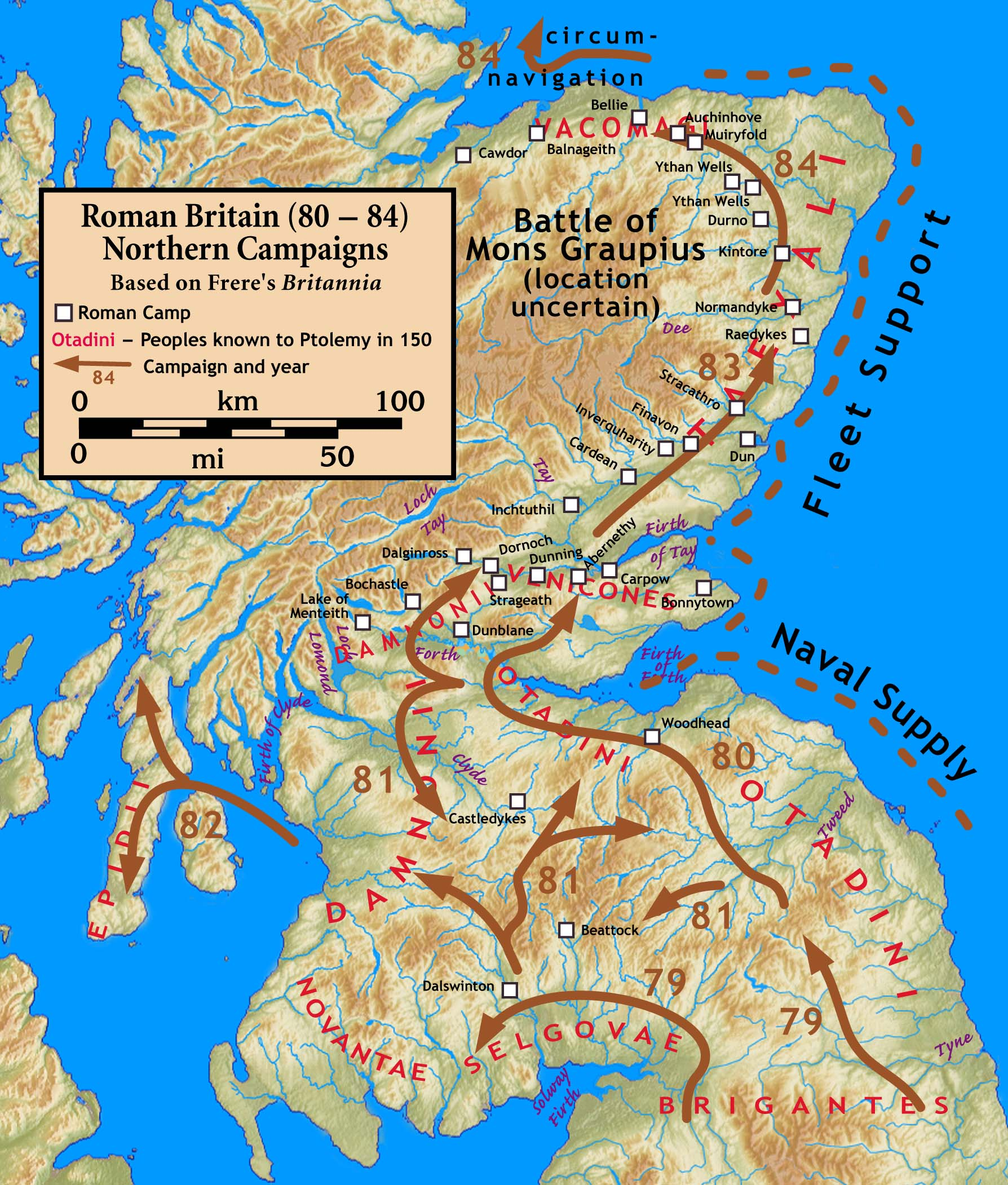 Northern British Campaigns of Agricola, 80 – 84